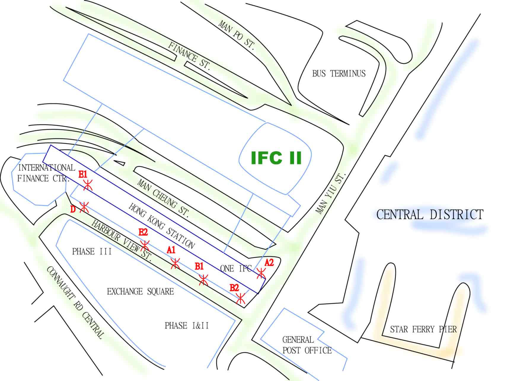 Location of the HKMA.